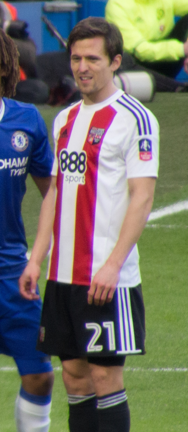 Lasse Vibe playing for Brentford against Chelsea at Stamford Bridge, London on 28 January 2017